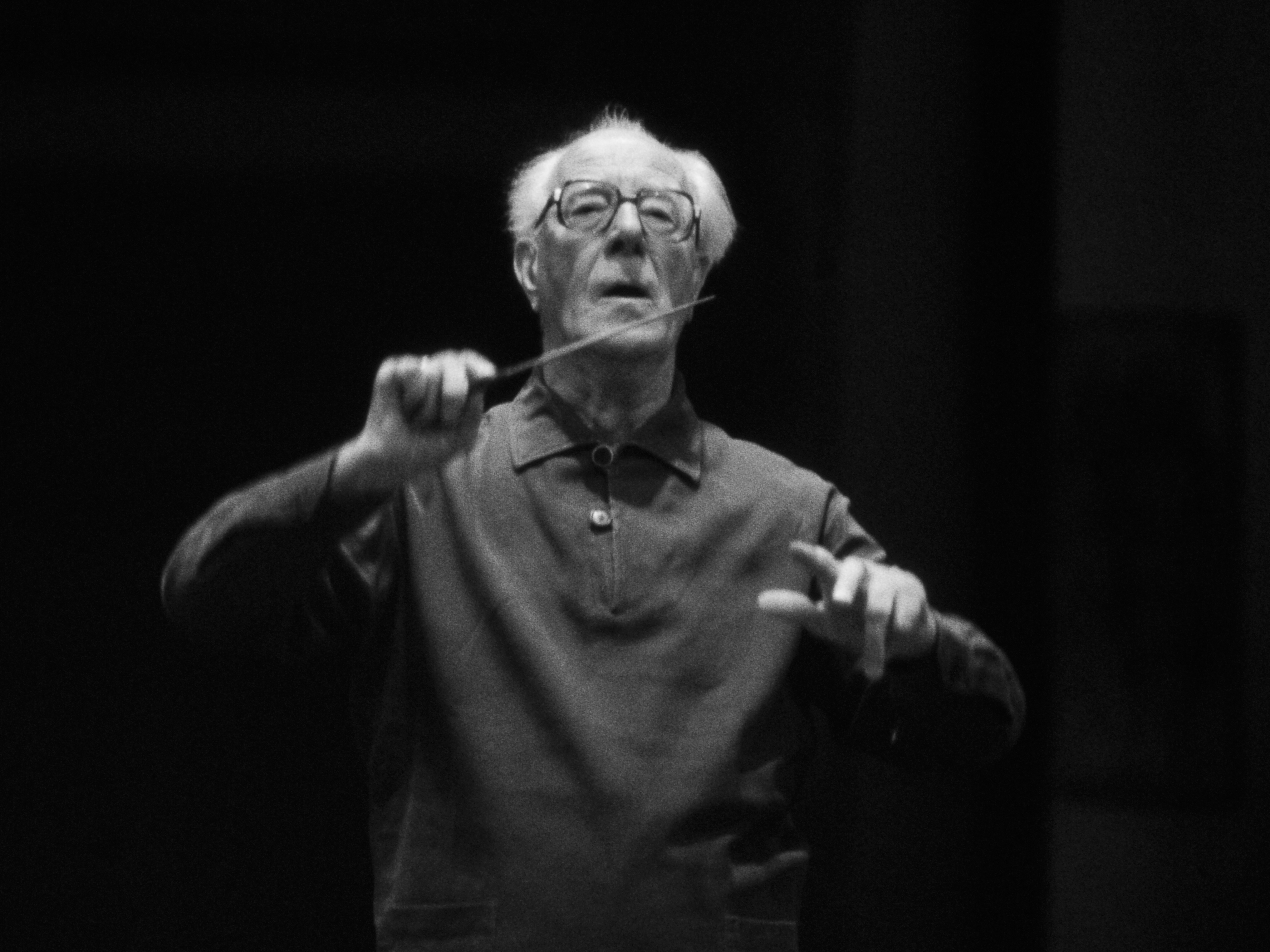 The German conductor Eugen Jochum